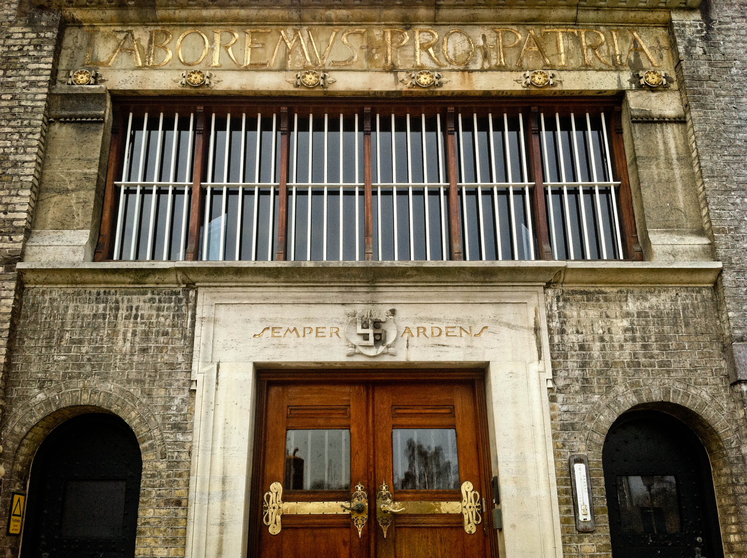 Facade detail from the Grey House in the Carlsberg neighbourhood of Copenhagen, Denmark